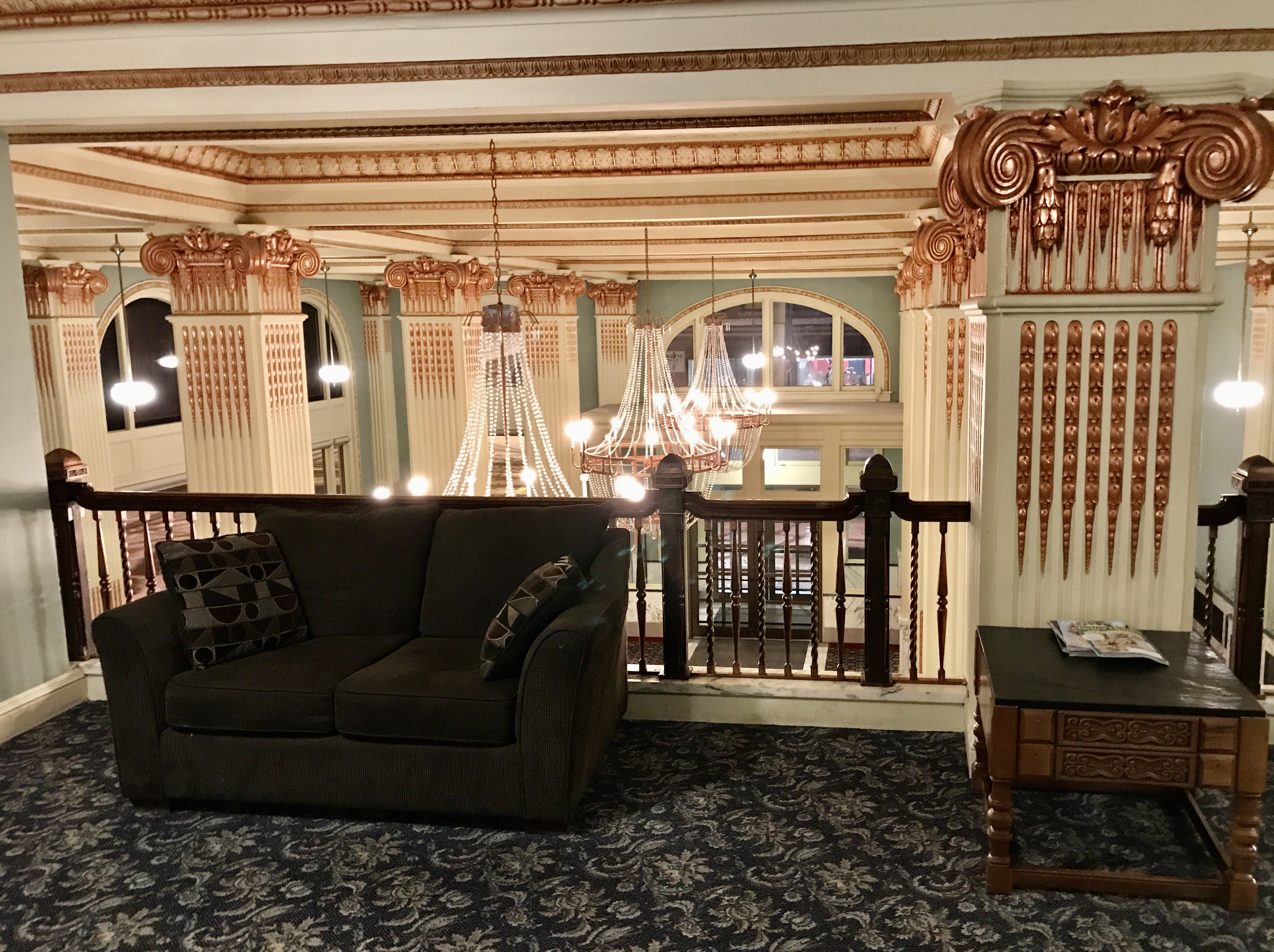 Finlen Hotel mezzanine as it appeared in January 2020. Butte, Montana, USA. (aka “Butte, America”). The Finlen has been restored to resemble its original appearance from when it was built in 1924. From the facility’s website: “ In 1924, the Hotel Finlen opened the doors to a grand, 9-story hotel with 250 rooms. It was designed in the second French empire style after the Hotel Astor in New York City.”